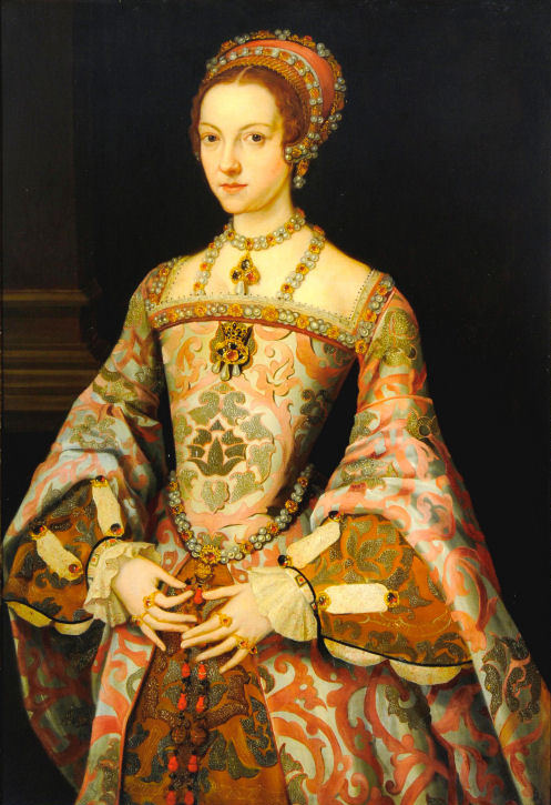 A three-quarter-length portrait, standing, hands clasped in front of her, and wearing a sumptuous brocade dress and jewellery. This is a cut-down seventeeenth or eighteenth copy of a lost portrait once in the Royal Collection and a full-length version, attributed to Master John, of the same sitter is in the National Portrait Gallery, London (NPG 4451).